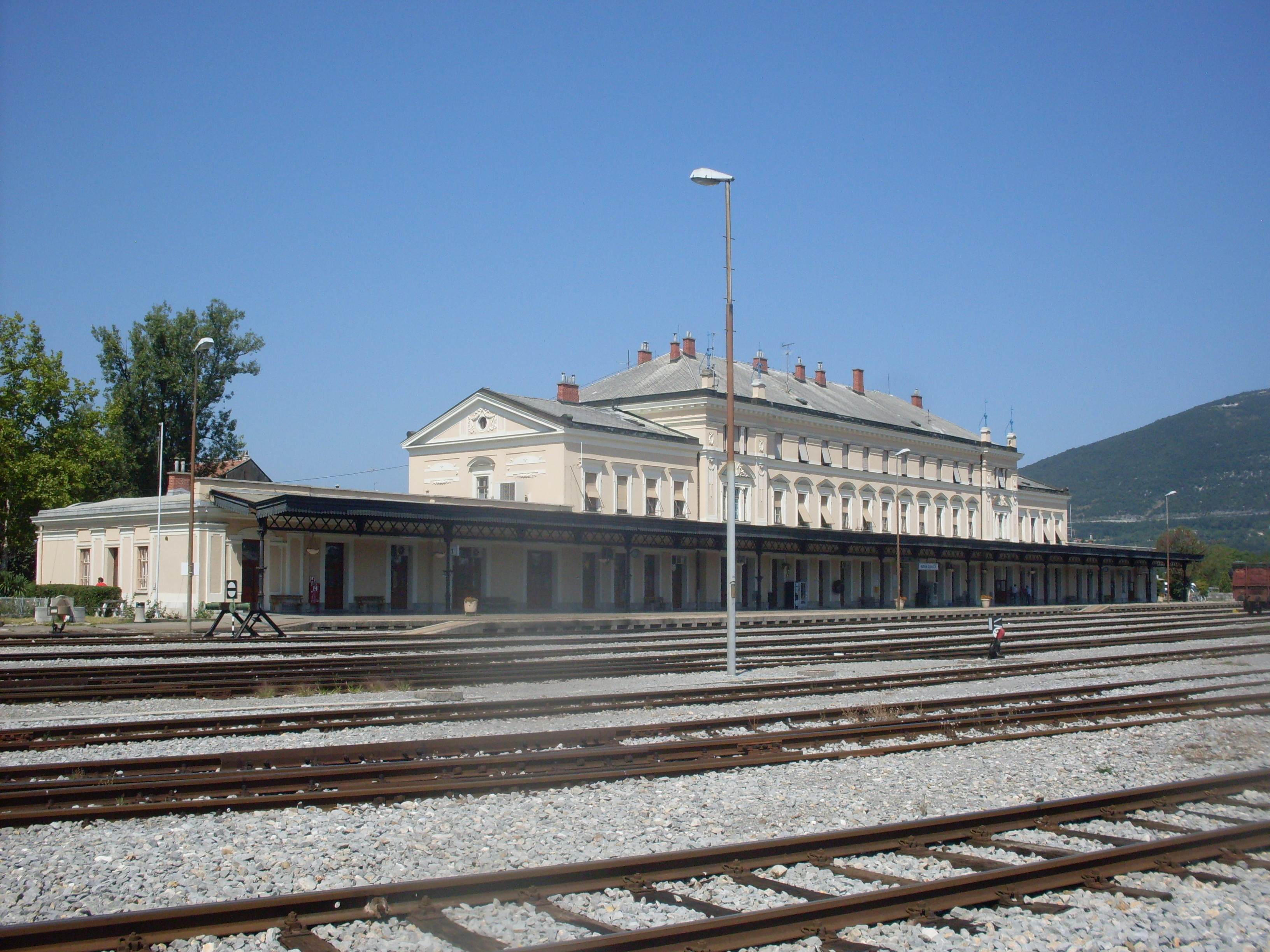 Nova Gorica train station, view from tracks